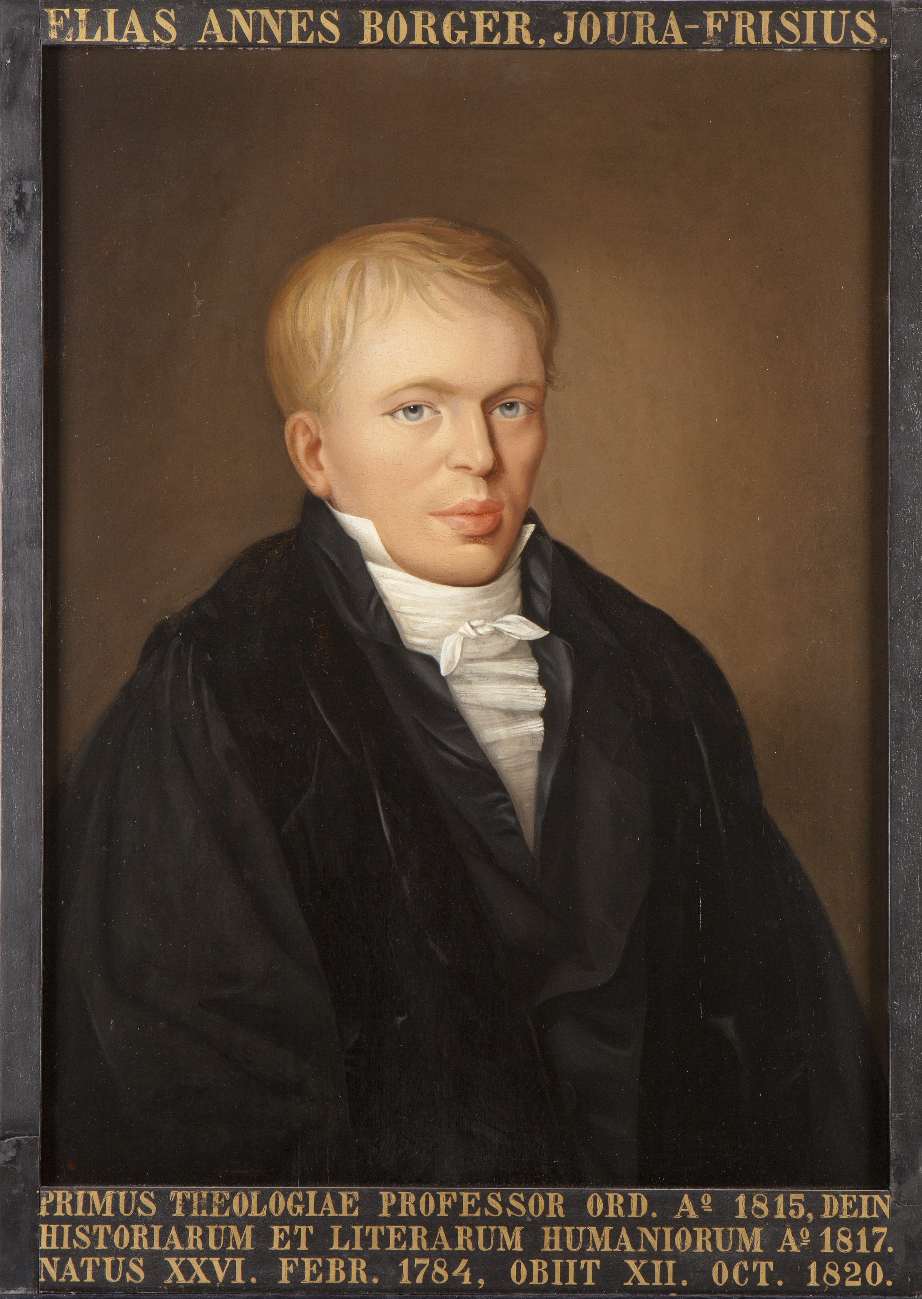 Painting of Elias Annes Borger by Ezechiel Davidson; oil on panel.